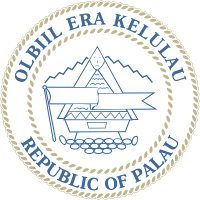 The seal of the Palau National Congress (Olbiil era Kelulau), the closest to an arms for Palau.